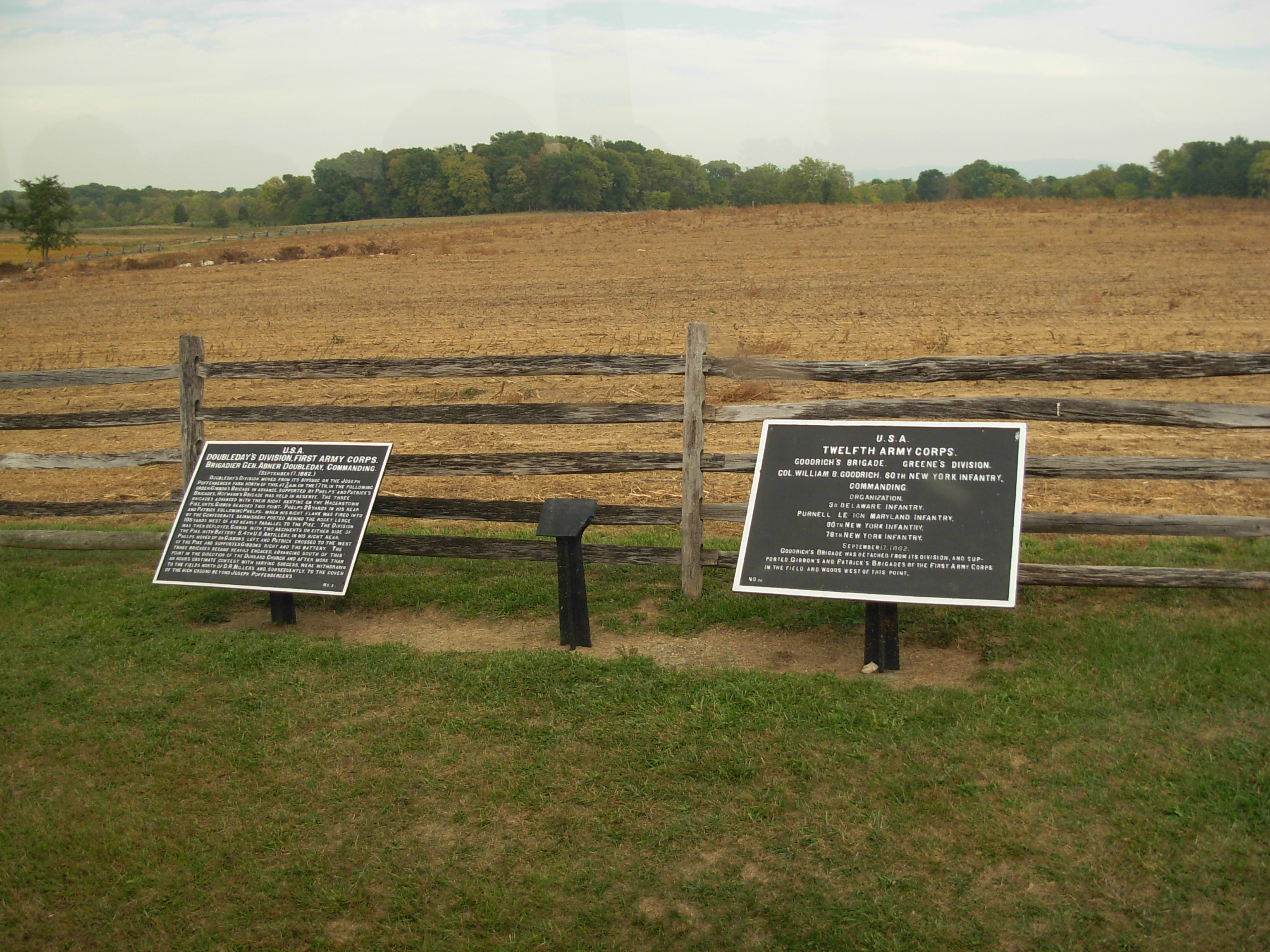 Memorial plaques at the Antietam National Battlefield, in northwestern Maryland.